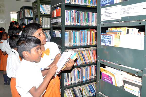 நூலகம் செல்வோம் நாம்